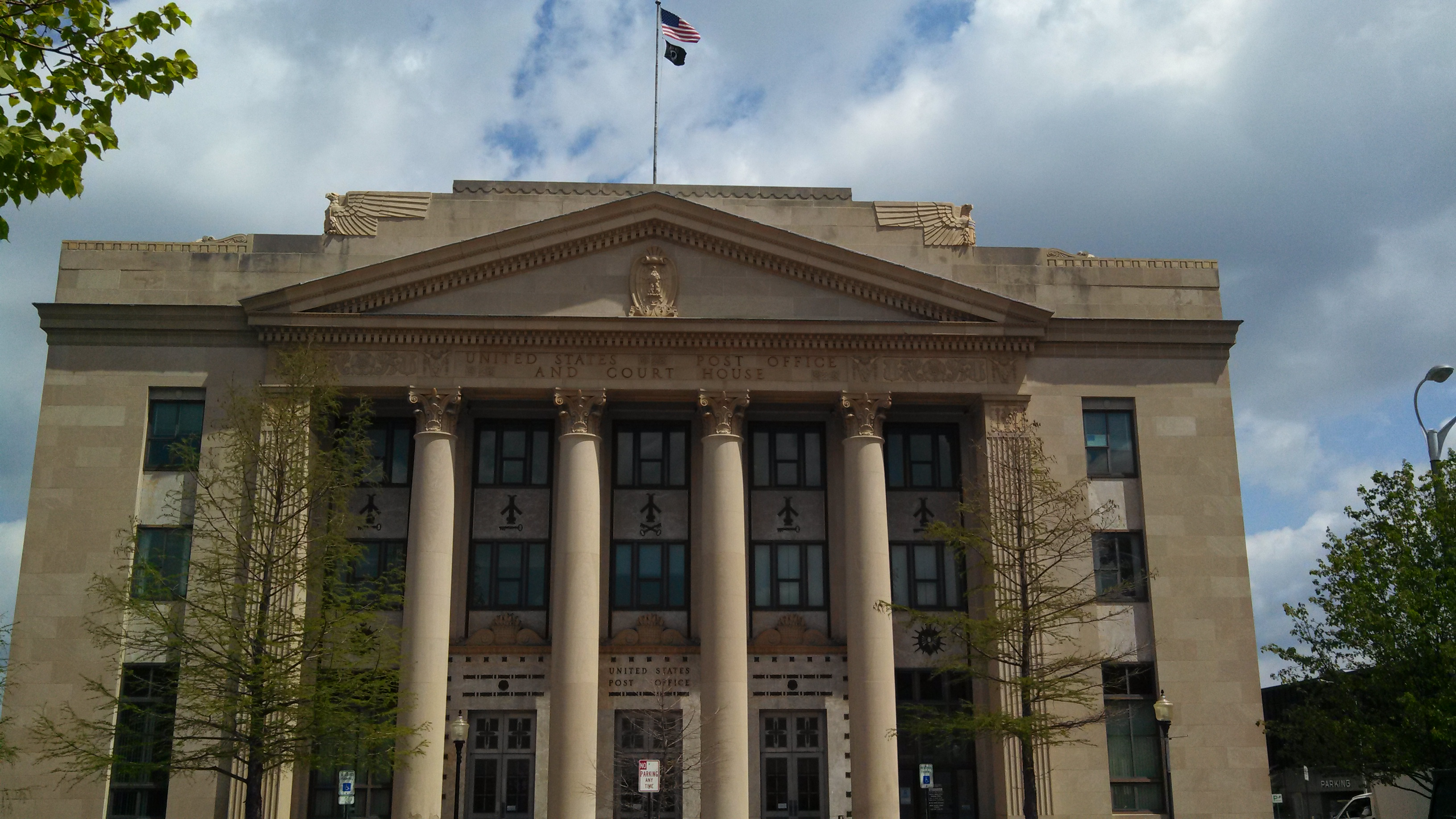 The United States Post Office and Court House, at 424 S. Kansas Ave., in Topeka, Kansas, is listed on the U.S. National Register of Historic Places. Although it ceased being used as a courthouse in 1977, it continued in use as a post office.